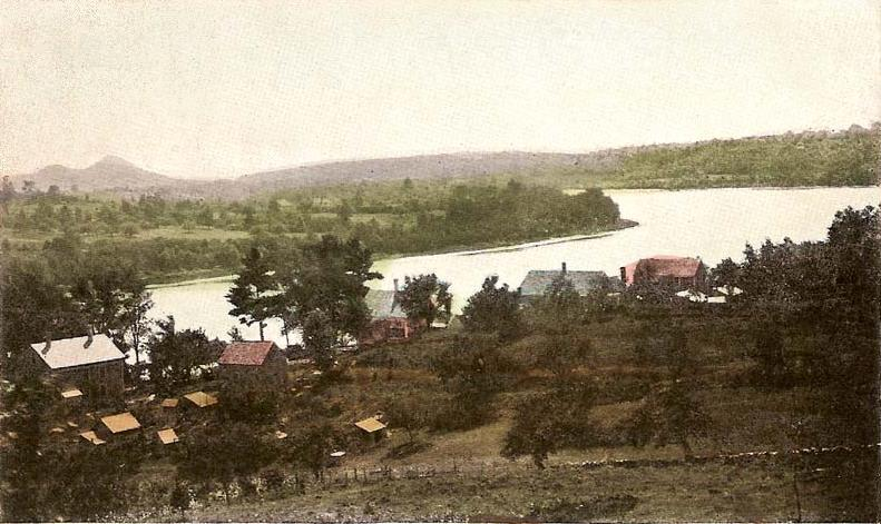 Merrimack River west from Noyes' Hill, Merrimacport, MA; from a 1913 postcard published by Goodwin & Company.